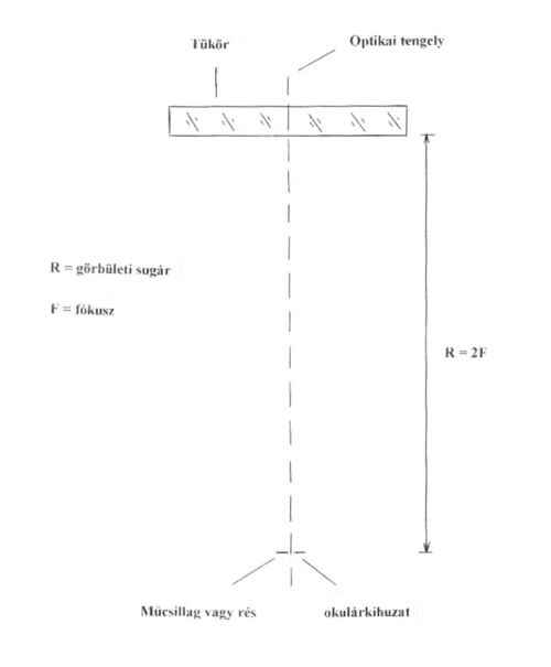 Own work